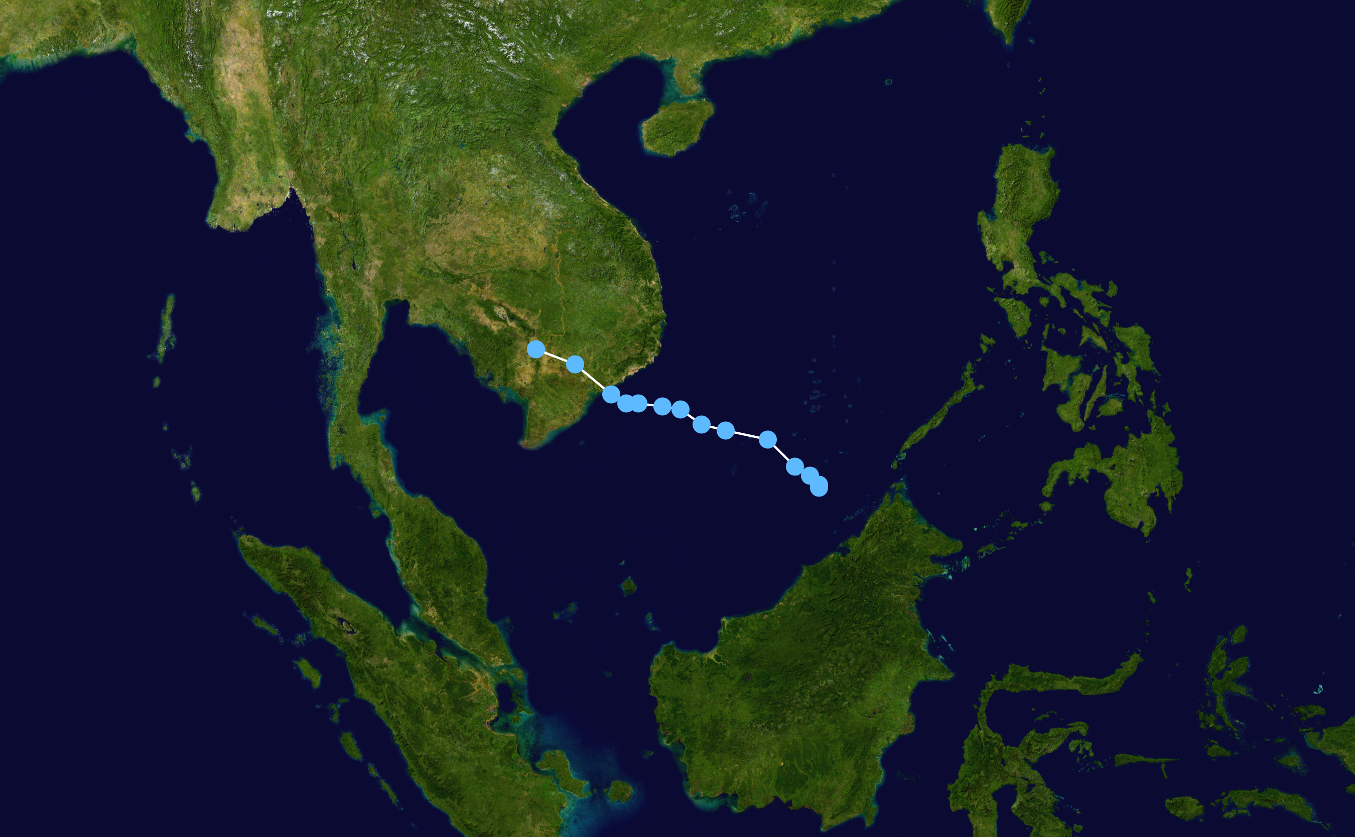 Track map of JMA Tropical Depression Forty-five of the 2016 Pacific typhoon season. The points show the location of the storm at 6-hour intervals. The colour represents the storm's maximum sustained wind speeds as classified in the Saffir–Simpson scale (see below), and the shape of the data points represent the nature of the storm, according to the legend below. Saffir–Simpson scale Tropical depression≤38 mph≤62 km/h Category 3111–129 mph178–208 km/h Tropical storm39–73 mph63–118 km/h Category 4130–156 mph209–251 km/h Category 174–95 mph119–153 km/h Category 5≥157 mph≥252 km/h Category 296–110 mph154–177 km/h Unknown Storm type Tropical cyclone Subtropical cyclone Extratropical cyclone / Remnant low / Tropical disturbance / Monsoon depression